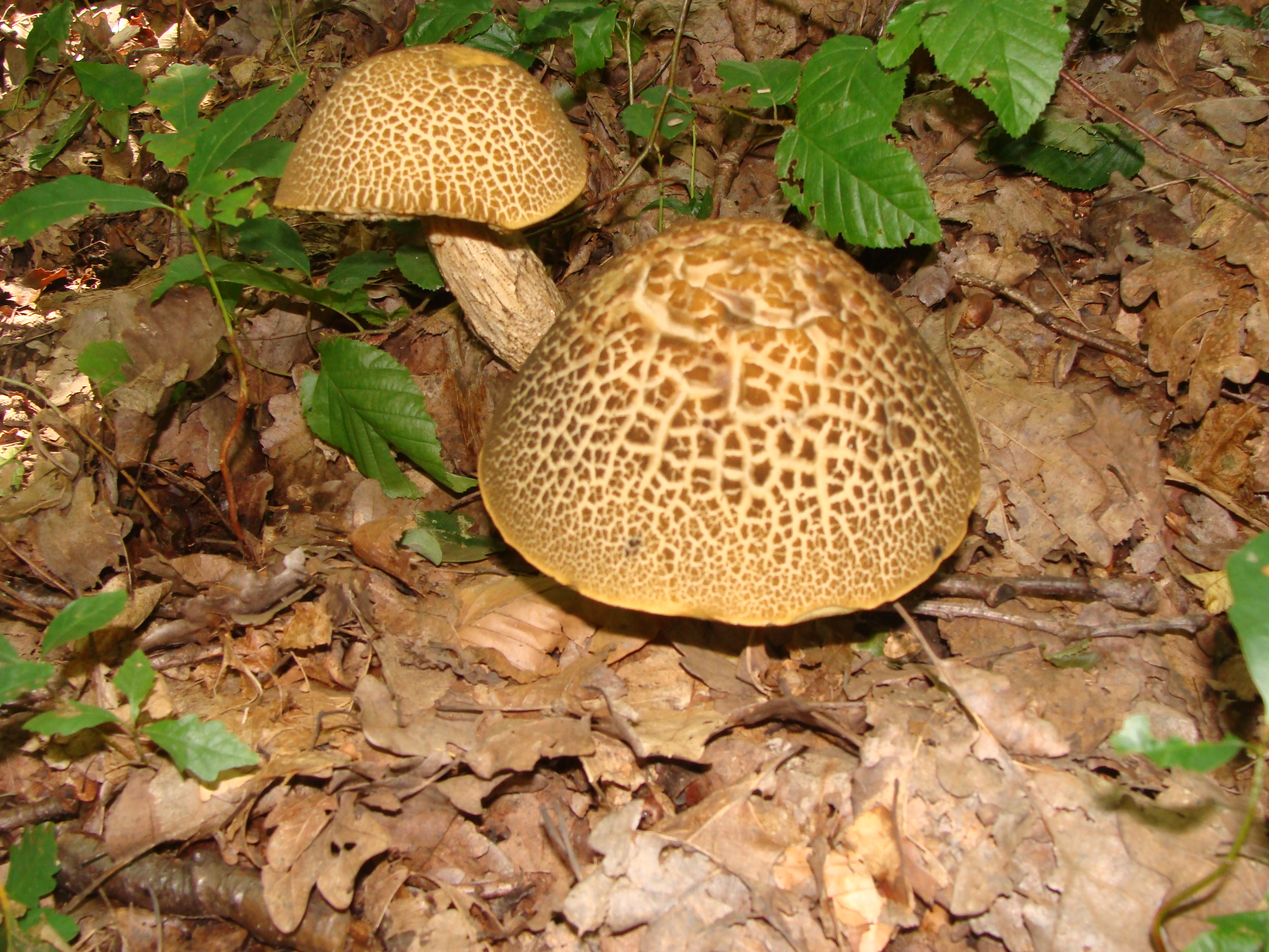 Leccinum nigrescens near Snina, Slovakia